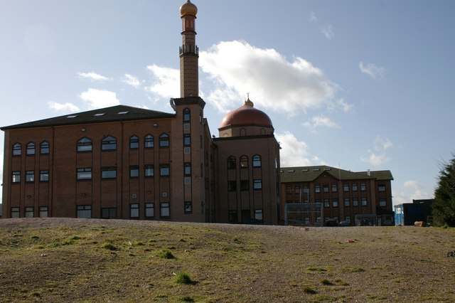 Jamiatul Ilm Wal Huda Mosque. This is a both a Mosque and boys boarding school.